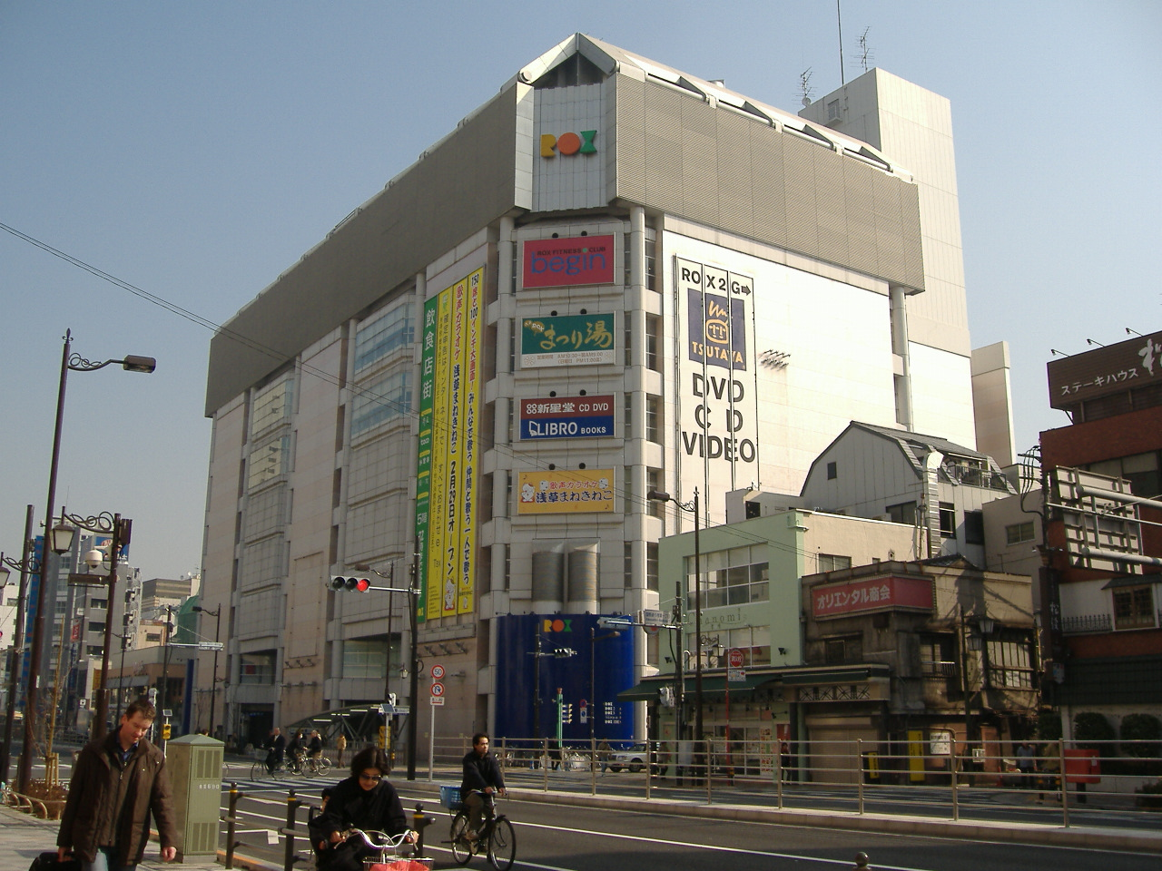 Asakusa-ROX (Tokyo,Japan)